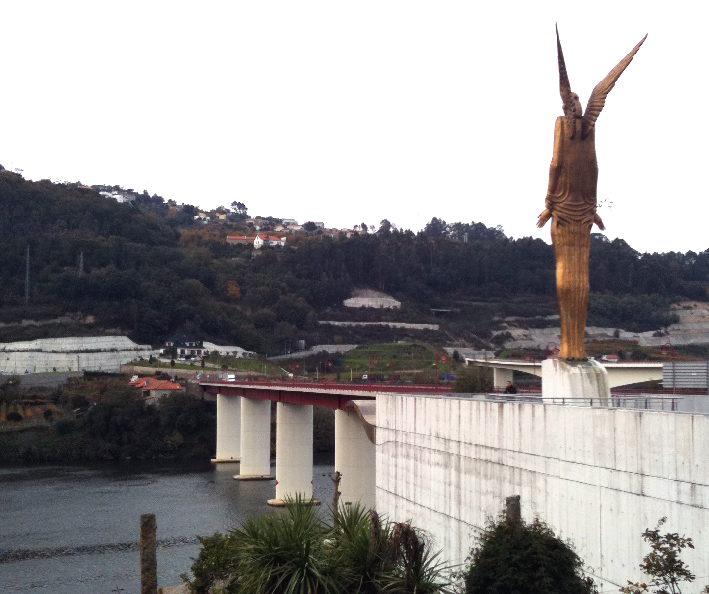 The newly built bridge near Castelo de Paiva and the memorial of the Hintze-Riberio Bridge